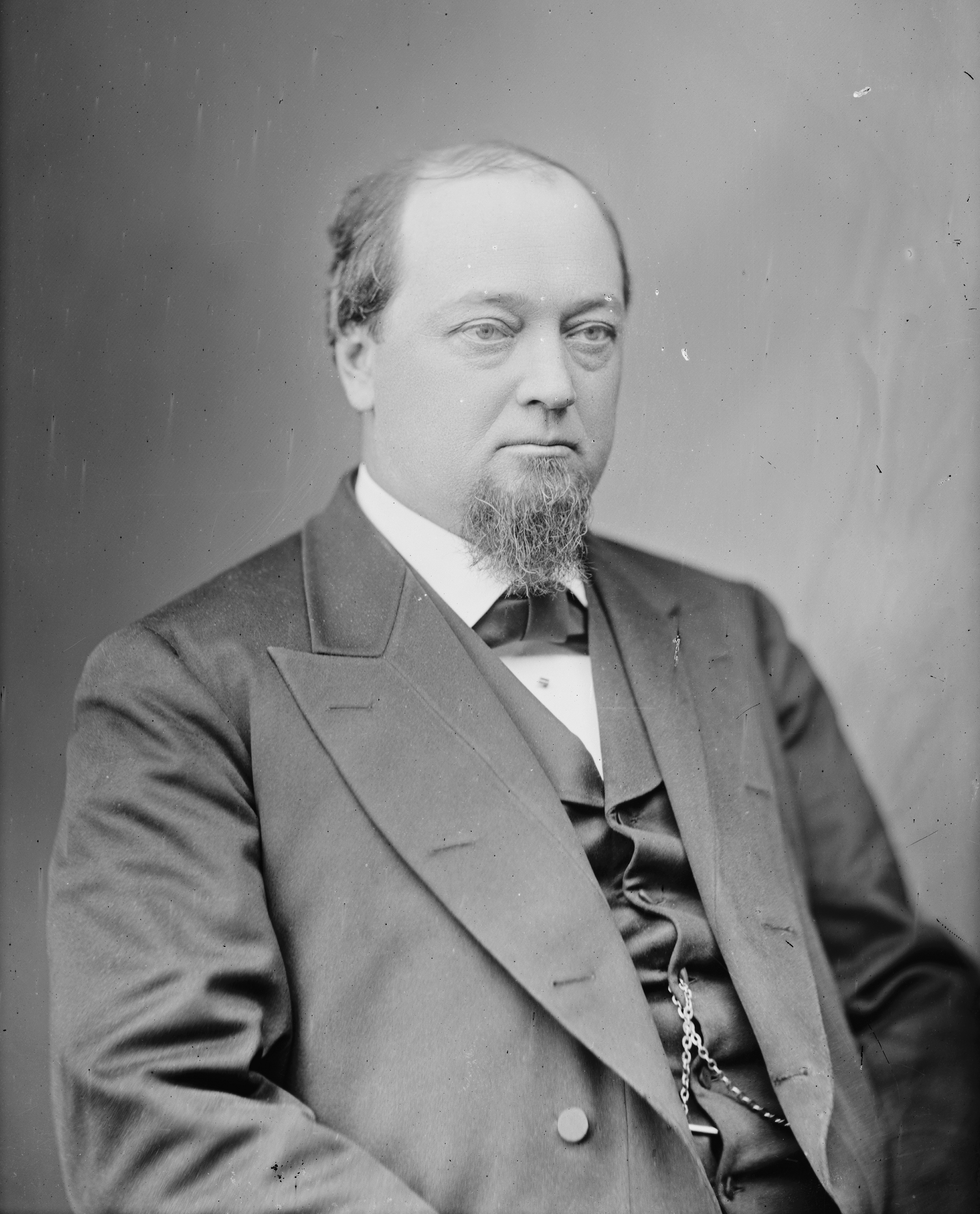 Hon. George Washington McCrary of Iowa Secretary of War, Hayes administration.